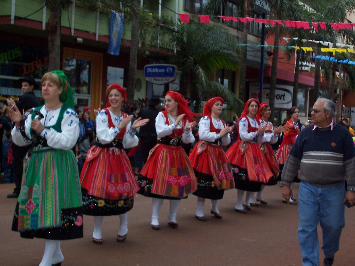 The Portuguese colectivity, coming from Rosario (Santa Fe), during the inaugural parade of XXVI Immigrant's National Festival, in Oberá, Misiones, Argentina.